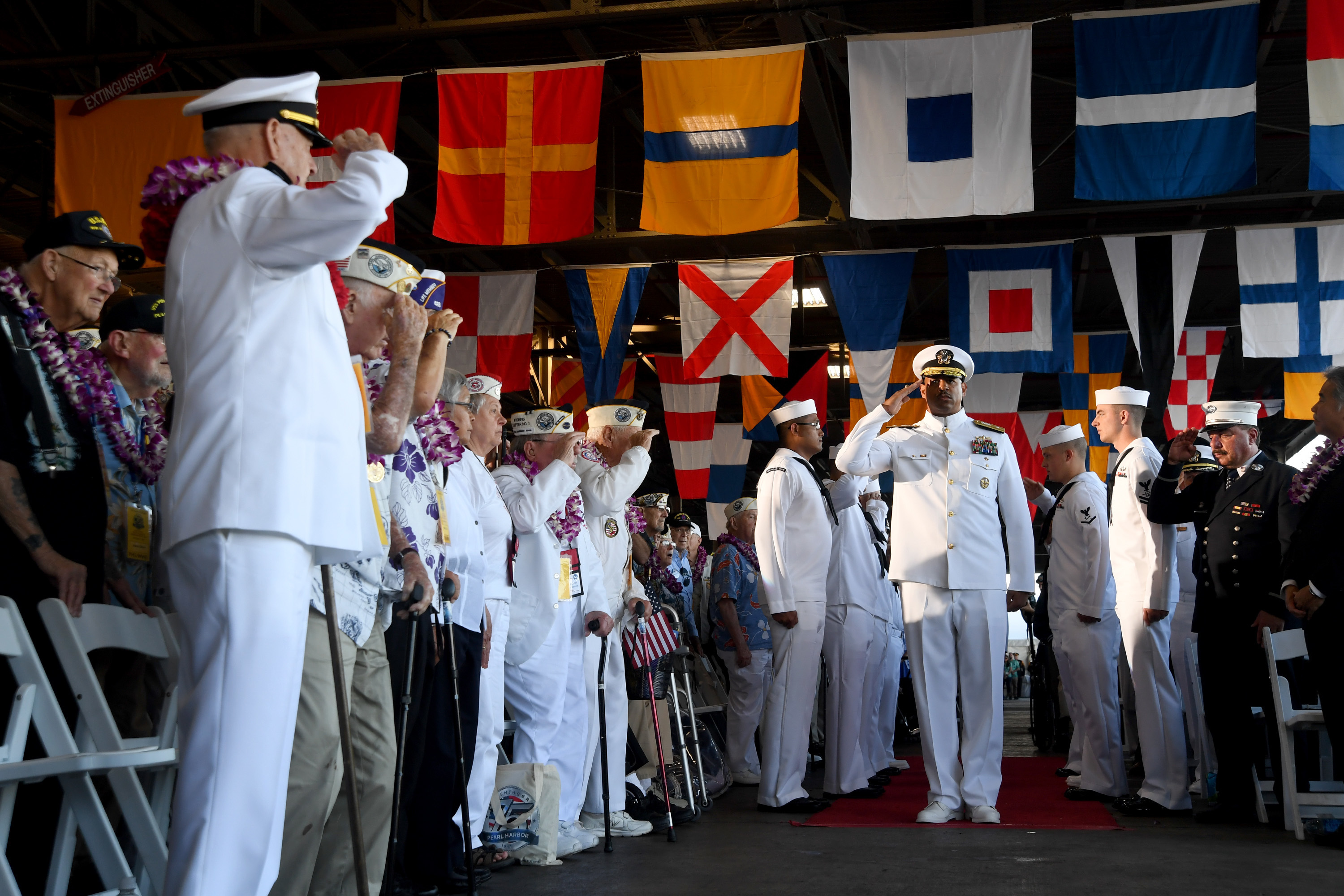 161207-N-GI544-150 PEARL HARBOR (Dec. 7, 2016) Rear Adm. John V. Fuller, commander, Navy Region Hawaii and Naval Surface Group Middle Pacific, walks through side boys during the 75th Commemoration Event of the attacks on Pearl Harbor and Oahu at Joint Base Pearl Harbor-Hickam. The 75th commemoration, co-hosted by the U.S. Military, the National Park Service and the State of Hawaii, provided veterans family members, service members and the community a chance to honor the sacrifices made by those who were present Dec. 7, 1941, as well as throughout the Pacific theater. Since the attacks, the U.S. and Japan have endured more than 70 years of continued peace, a cornerstone of security and prosperity in the Indo-Asia-Pacific region. As a Pacific nation, the U.S. is committed to continue its responsibility of protecting the Pacific sea-lanes, advancing international ideals and relationships, well as delivering security, influence and responsiveness in the region. (U.S. Navy Photo by Petty Officer 2nd Class Laurie Dexter) Unit: Navy Public Affairs Support Element Detachment Hawaii DVIDS Tags: Pearl Harbor; World War II veteran; JBPH-H; Sailor; USN; United States Navy; PH75; PH75USN; 75th National Pearl Harbor Remembrance Day